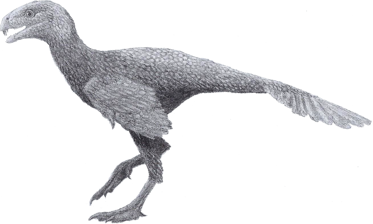 Incisivosaurus reconstruction by Tom Parker (Tomopteryx/Tomozaurus).